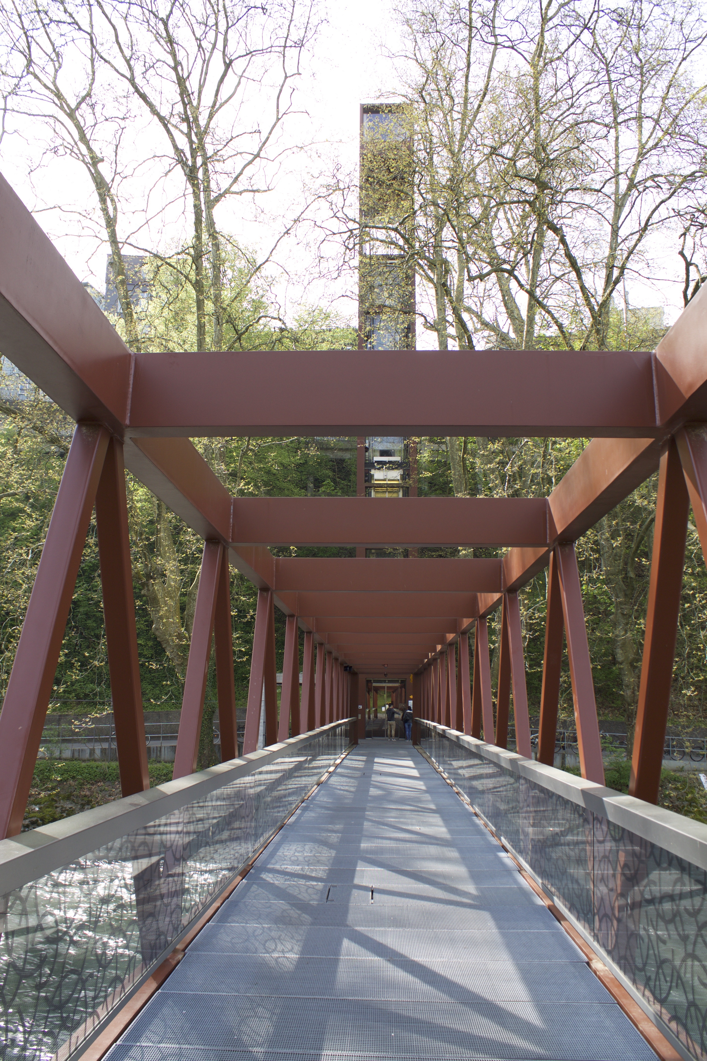 "Promenade lift" between the Limmat promenade and the station square in Baden, Switzerland, seen from the Limmat footbridge